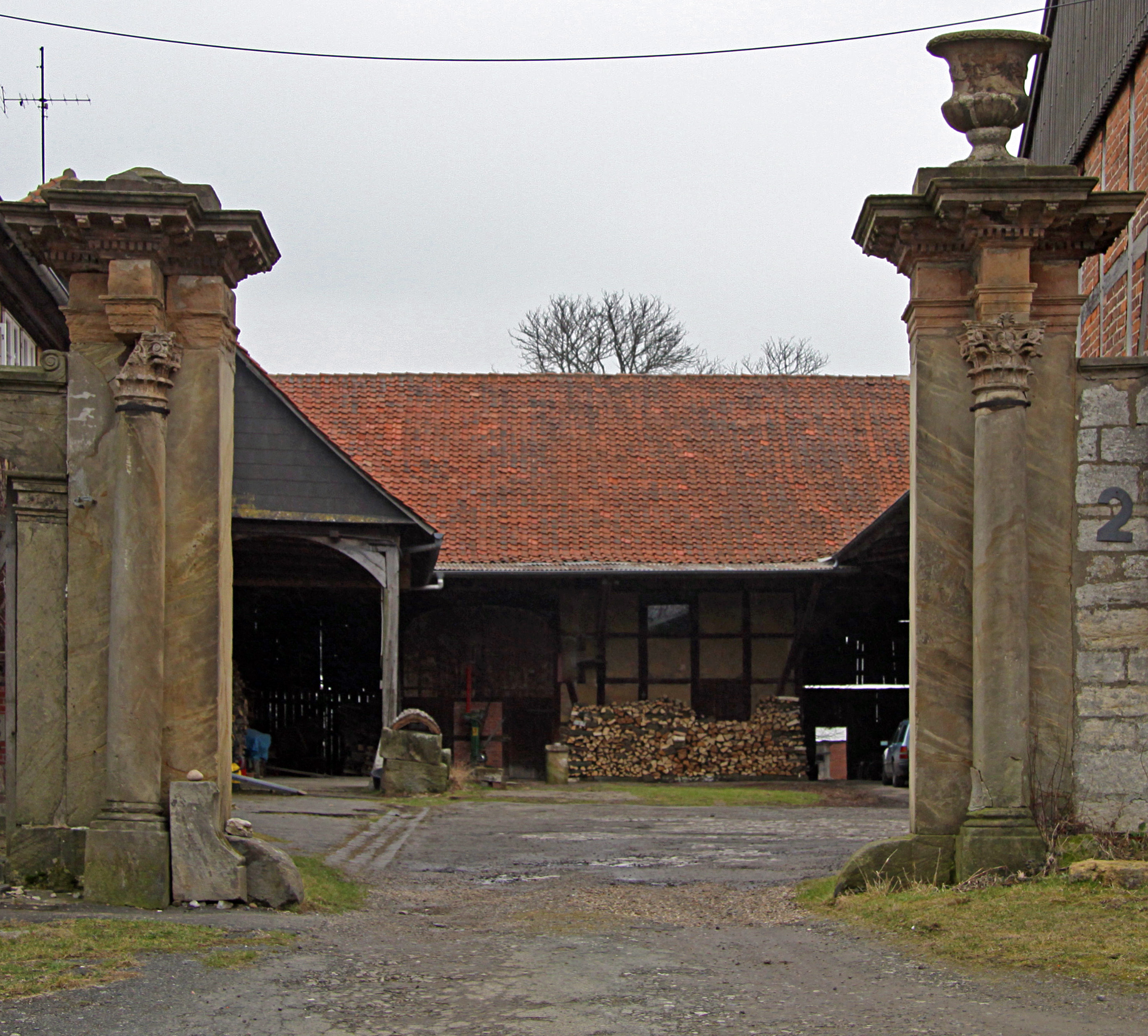 Former portal on castle Salzdahlum, now Mönchevahlberg, Lower Saxon, Germany